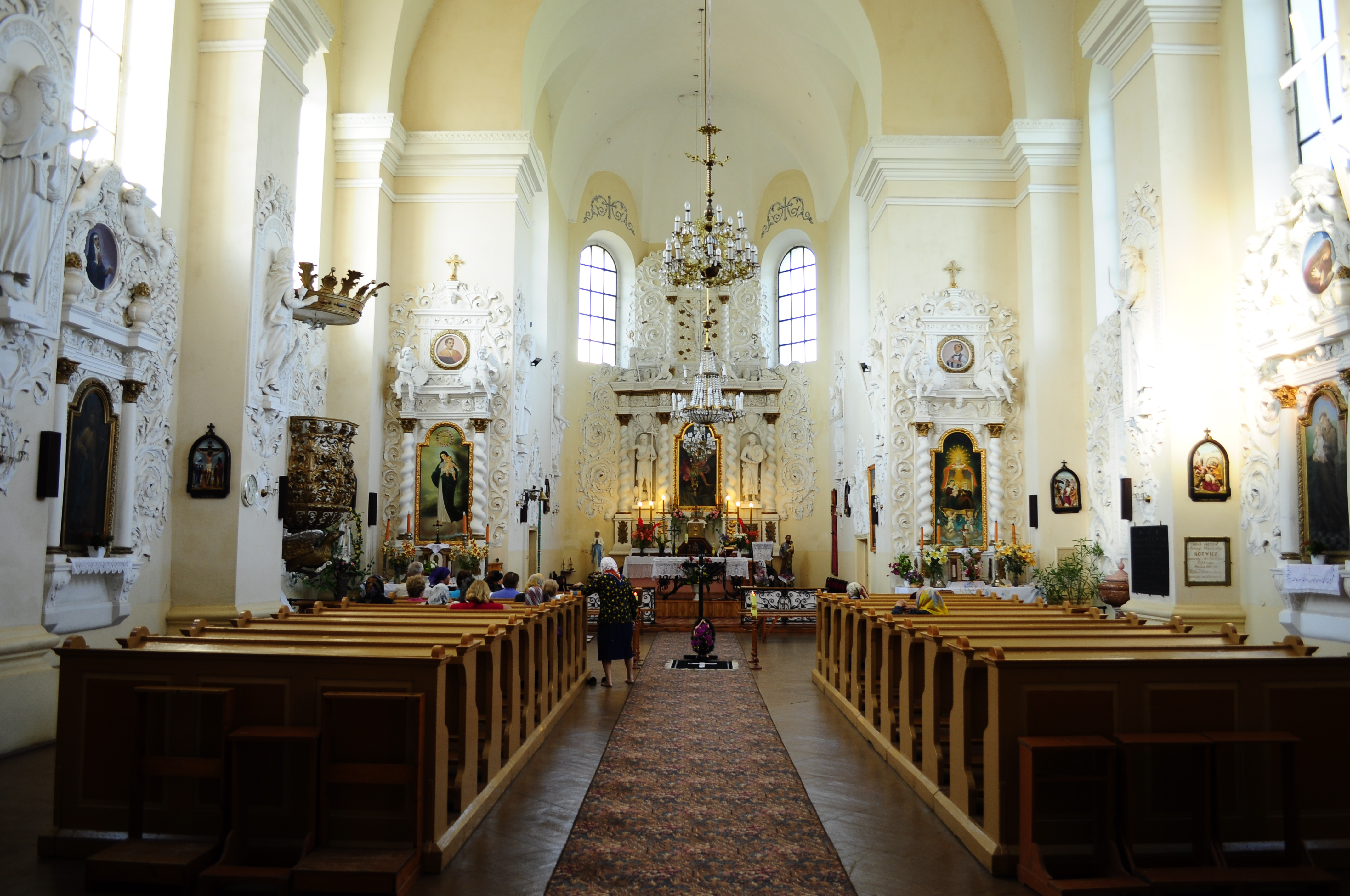 Church of St. Michael the Archangel This is a photo of Belarusian heritage monument. Reference number: 412Г000051 ( WLM)